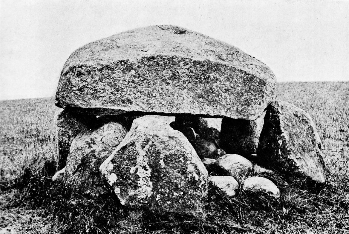 Megalithic Tomb Plaaz (Sprockhoff-No. 373)